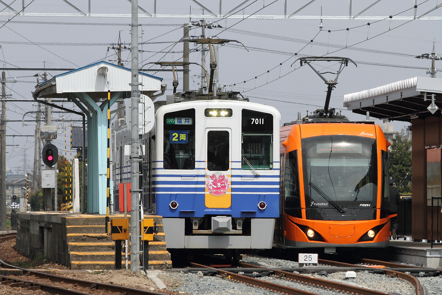 Echizen Railway 7000 series EMU (left) and Fukui Railway Type F1000 low-floor tram (right) in Washizuka-Haribara Station.